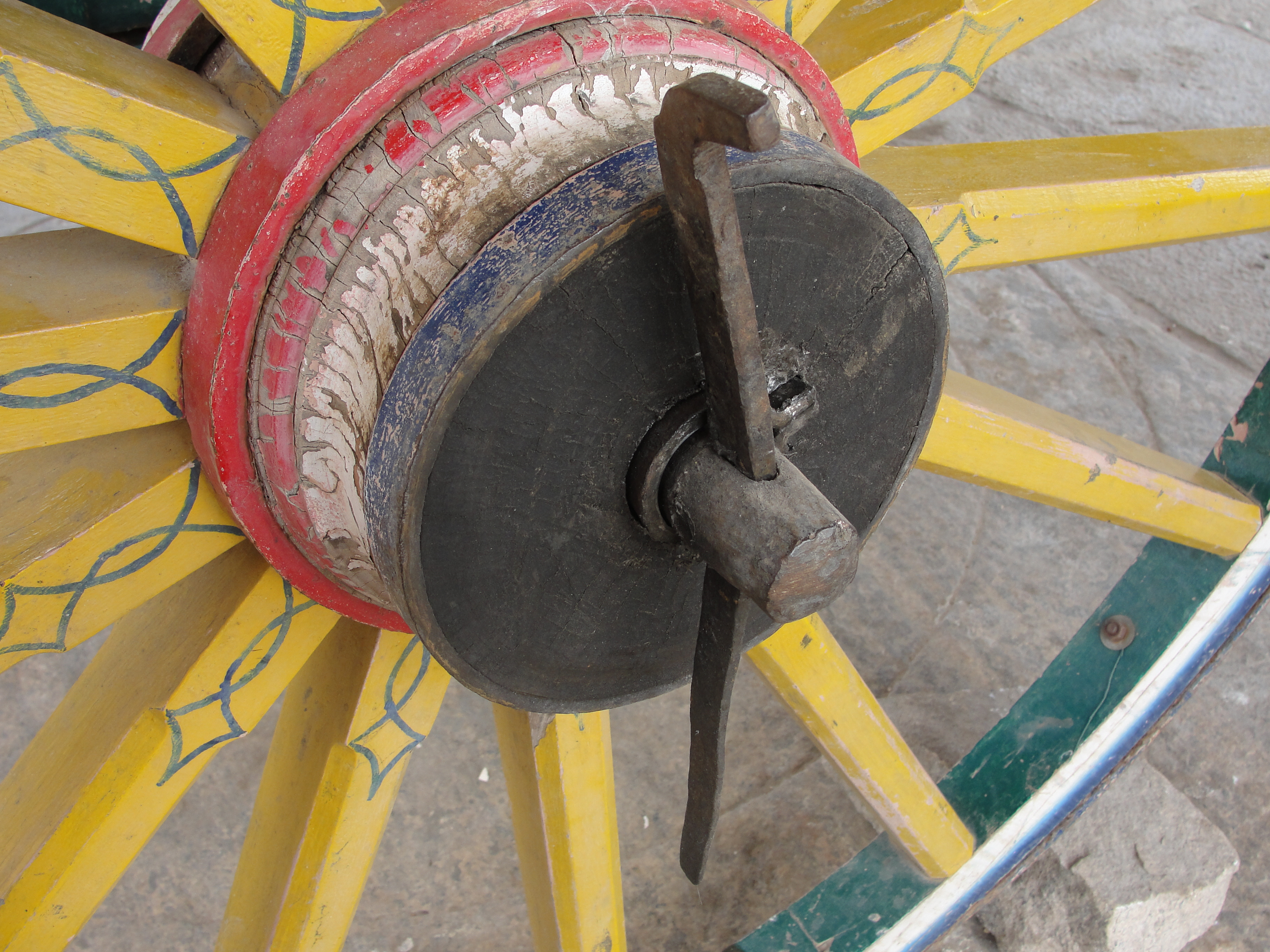 linchpin